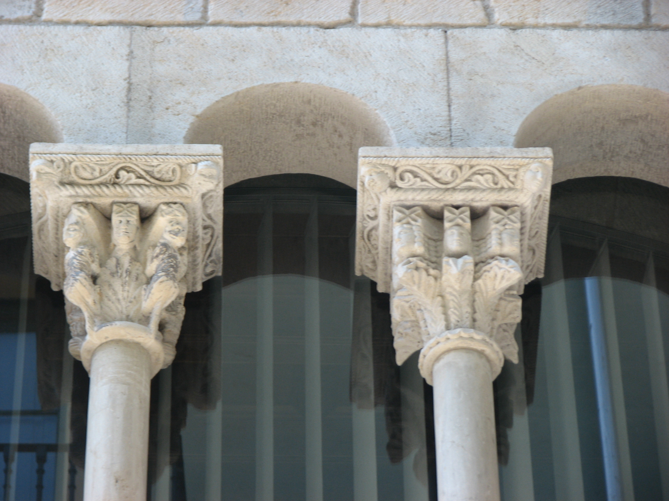 La Fontana d'Or (Girona)